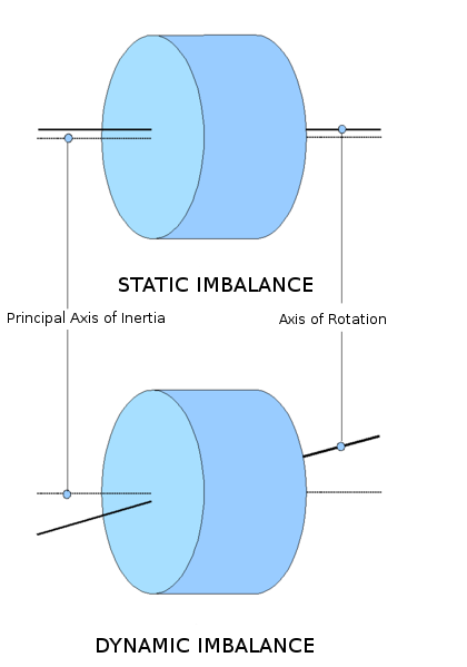 I took this image from Wikimedia commons (File:Unwucht.png) and translated labels to English.